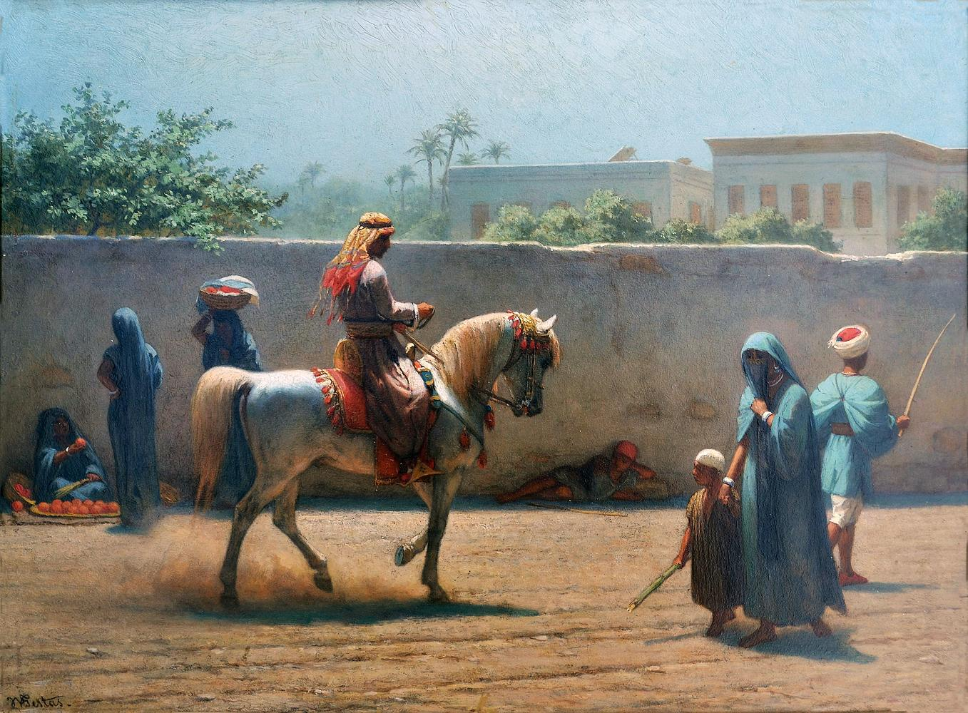 The new stallion